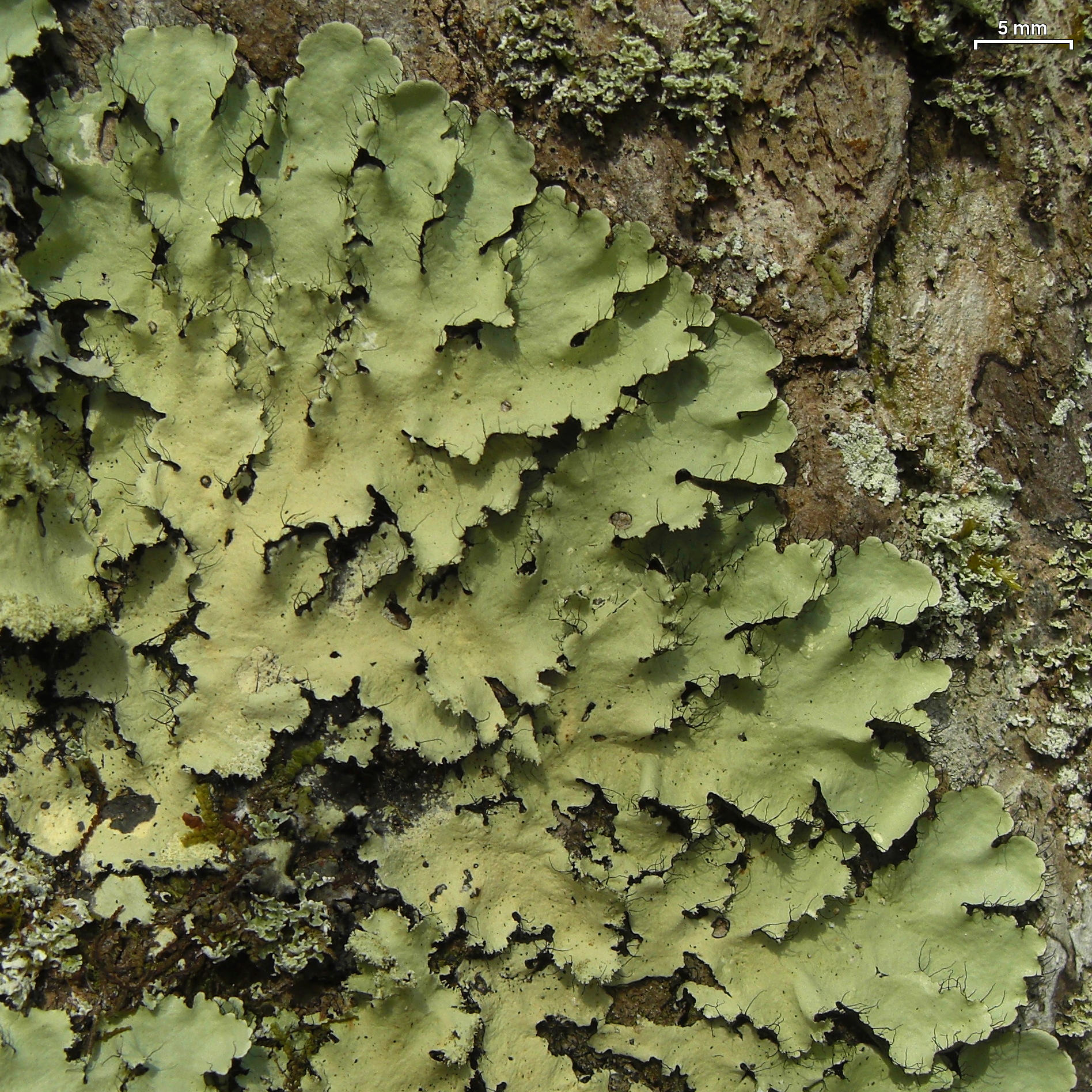 Lecanora floridula and Parmotrema madagascariaceum growing on Acer rubrum bark, Alligator River National Wildlife Refuge, North Carolina, 20140323 det. J. Lendemer 6244, at NY